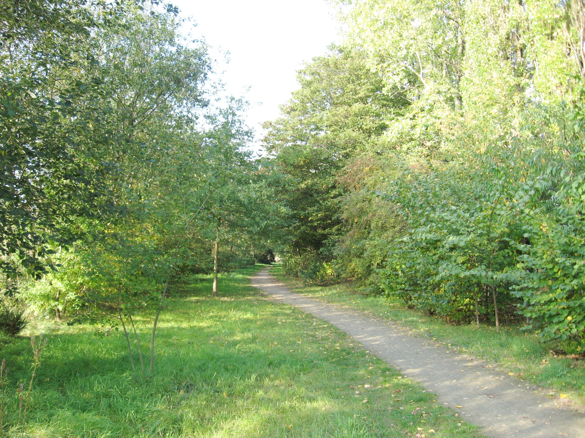 Railway 30 in Scherpenheuvel, Scherpenheuvel-Zichem, Flemish Brabant, Belgium